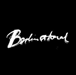 Logo for Berlin Atonal